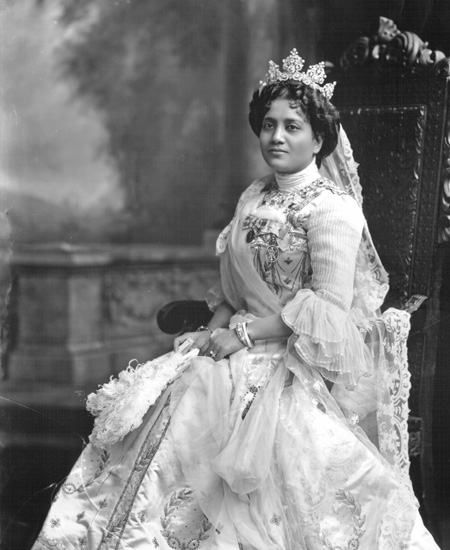 Suniti Devi (1864-1932), Maharani of Cooch Behar